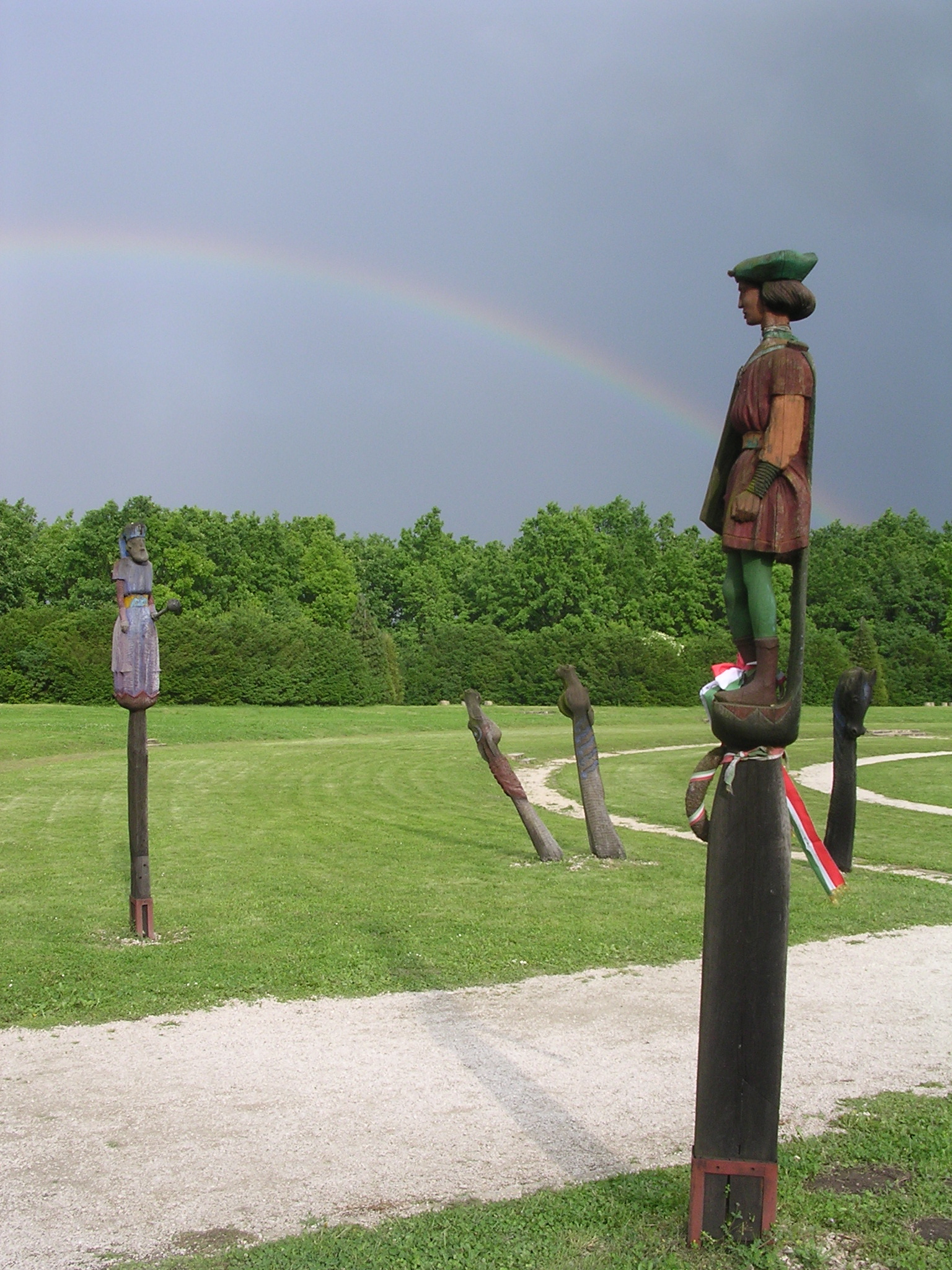 Photo of Mohács Historical Monument